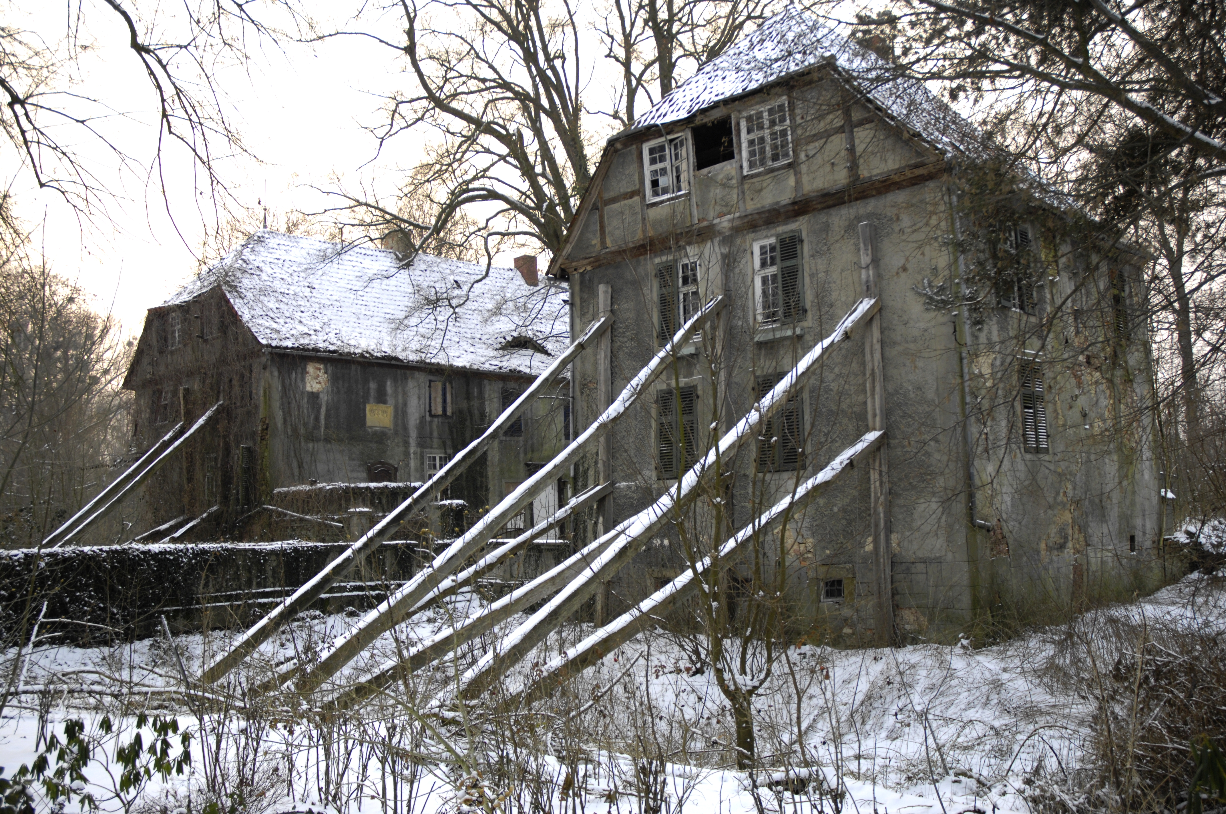 This image shows a heritage building in Germany, located in the North Rhine-Westphalian city Espelkamp (no. 6).